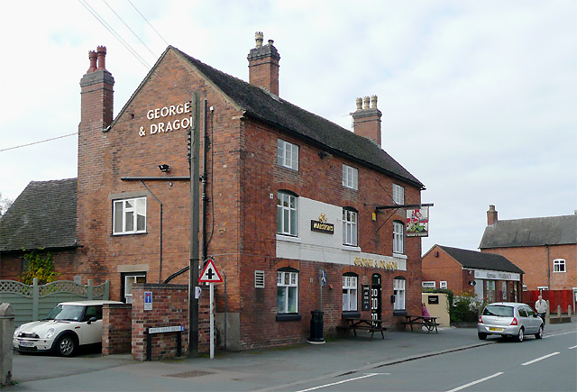 The George & Dragon, Main Street, Alrewas, Staffordshire, seen from the northeast